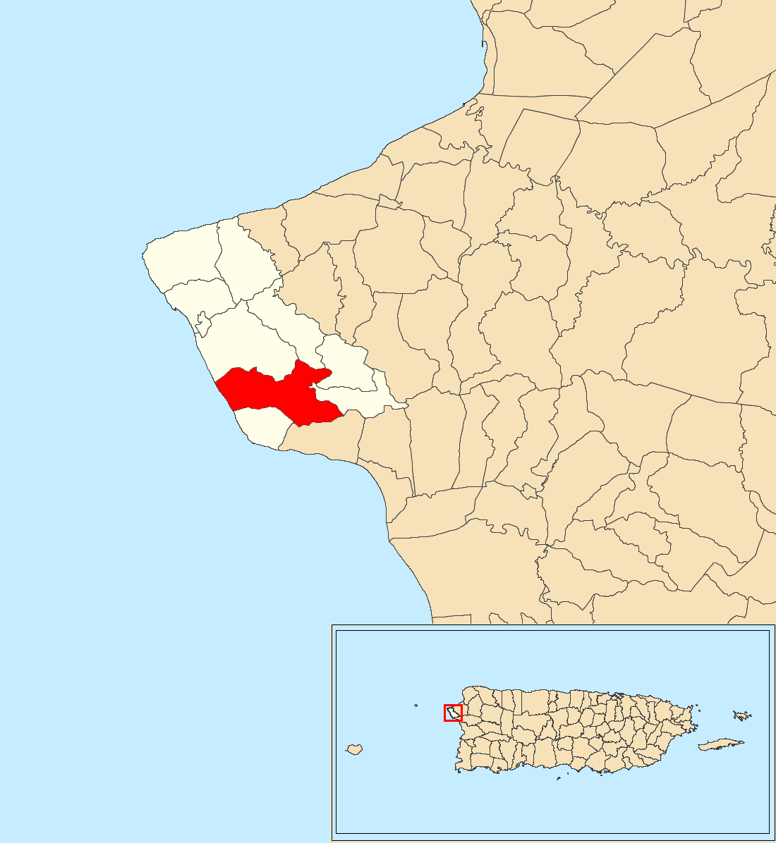 Calvache, Rincón, Puerto Rico locator map